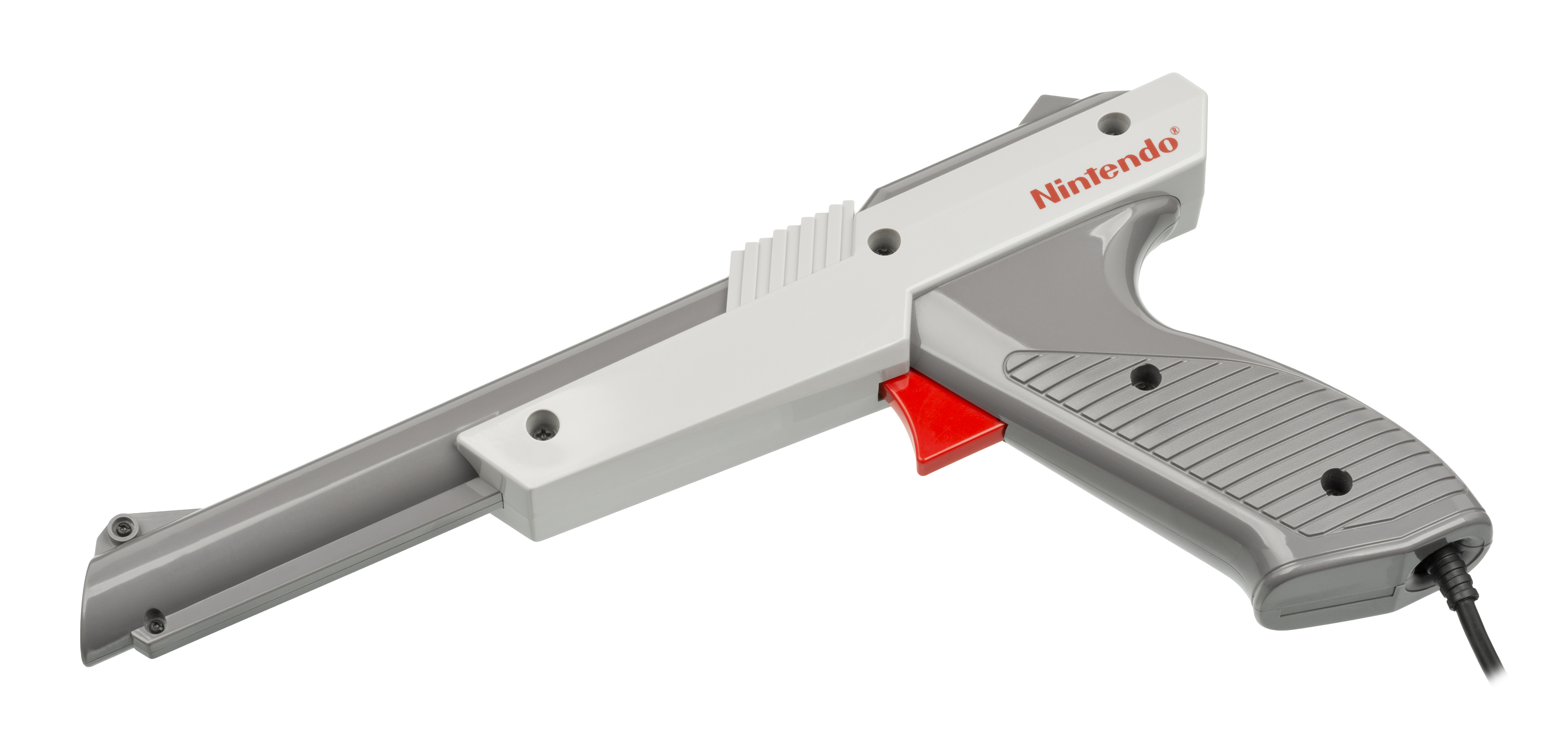 The Nintendo Zapper, a light gun for the Nintendo Entertainment System (NES) video game console. This is the gray model that was originally released as a pack-in with the console, later sold separately.